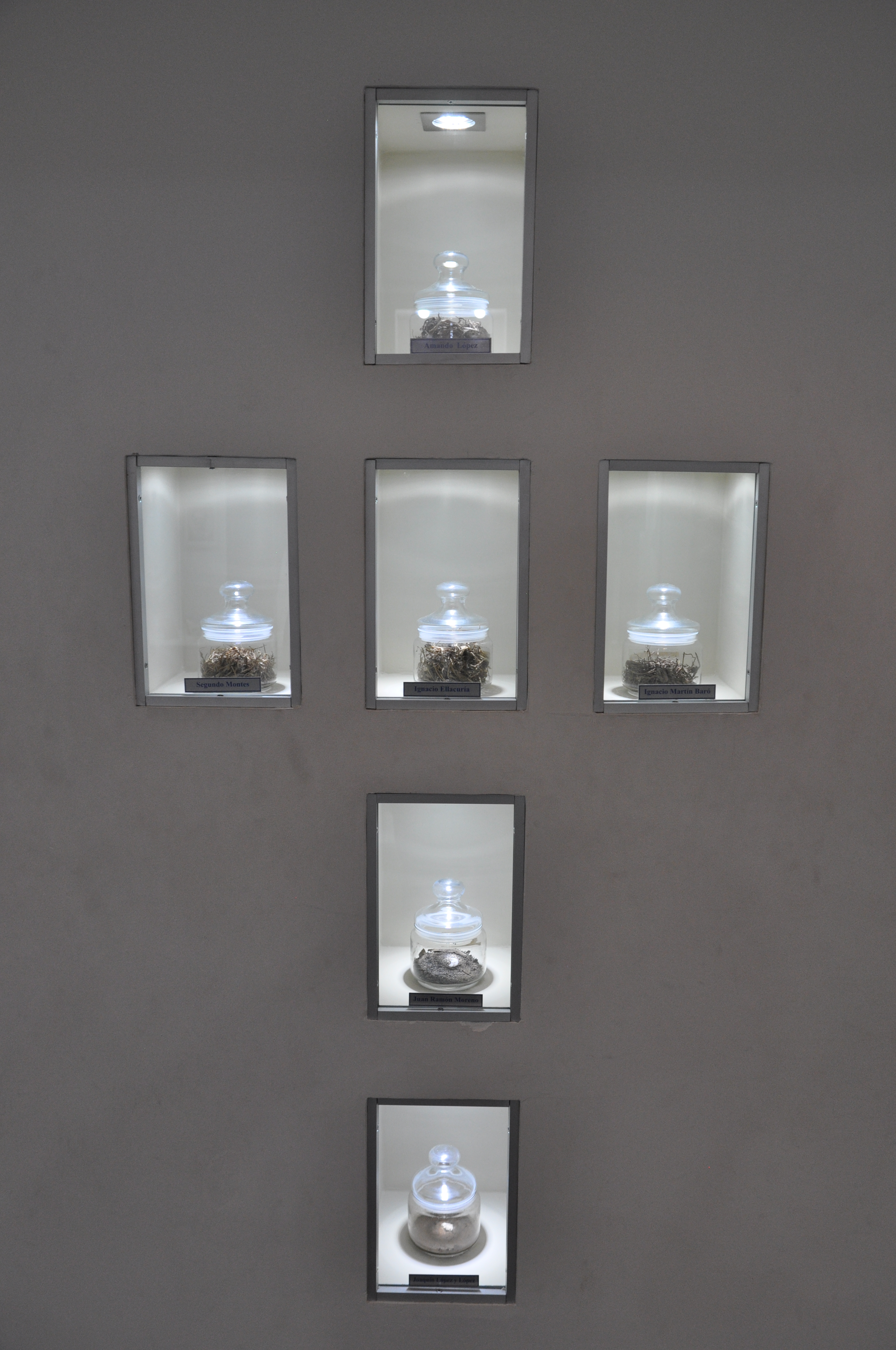 Mártires de la UCA. Ashes from Ignacio Ellacuría, Ignacio Martín-Baró, Segundo Montes, Juan Ramón Moreno, Amando López, Joaquín López y López. Sála de Mártires. UCA. El Salvador.